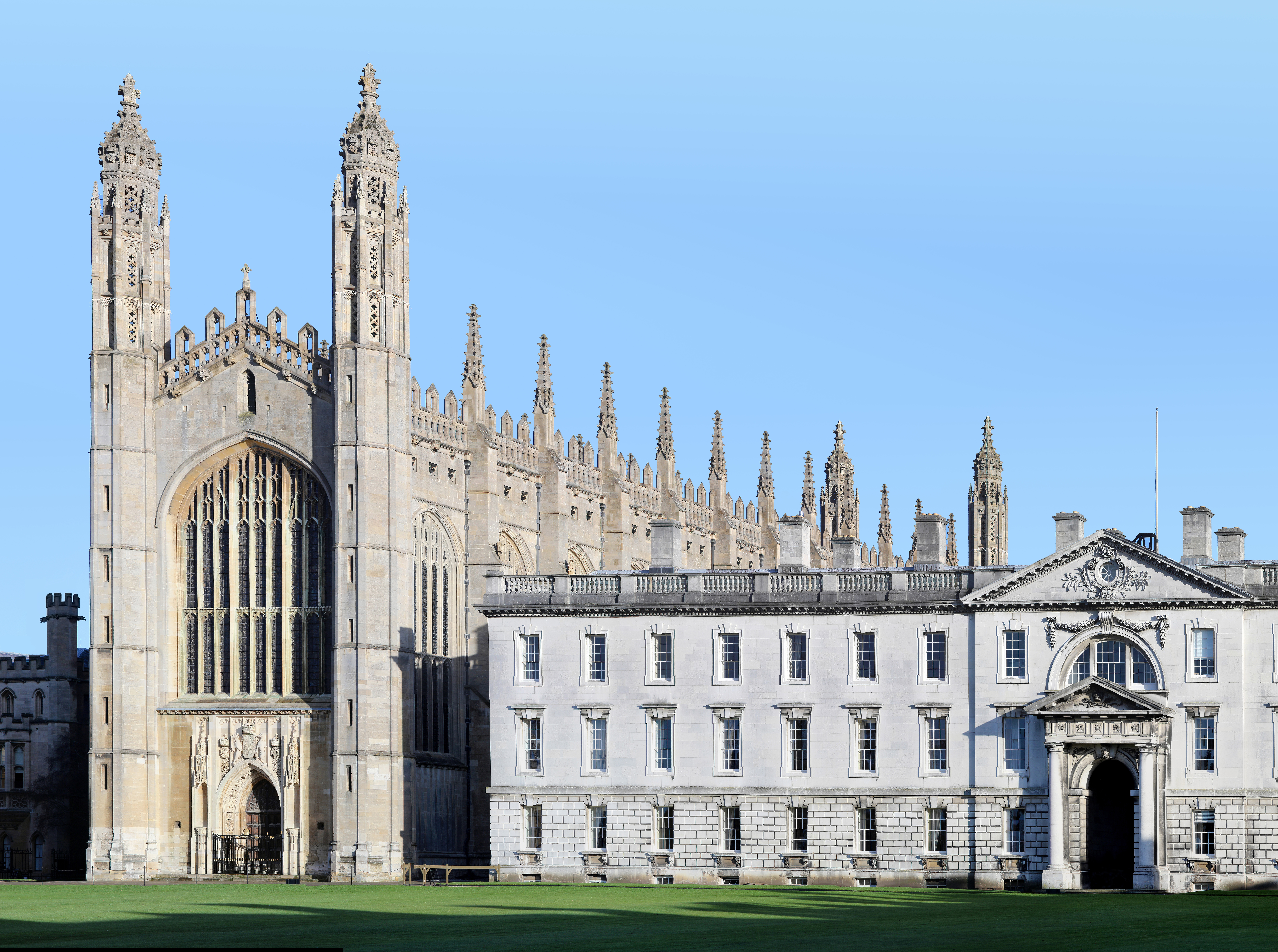 King's College Chapel and Gibbs building, Cambridge. A hi-resolution image (75 megapixel). Technical: stitched out of 73 shots (each 15 mpix), then reduced resolution for sharpness.